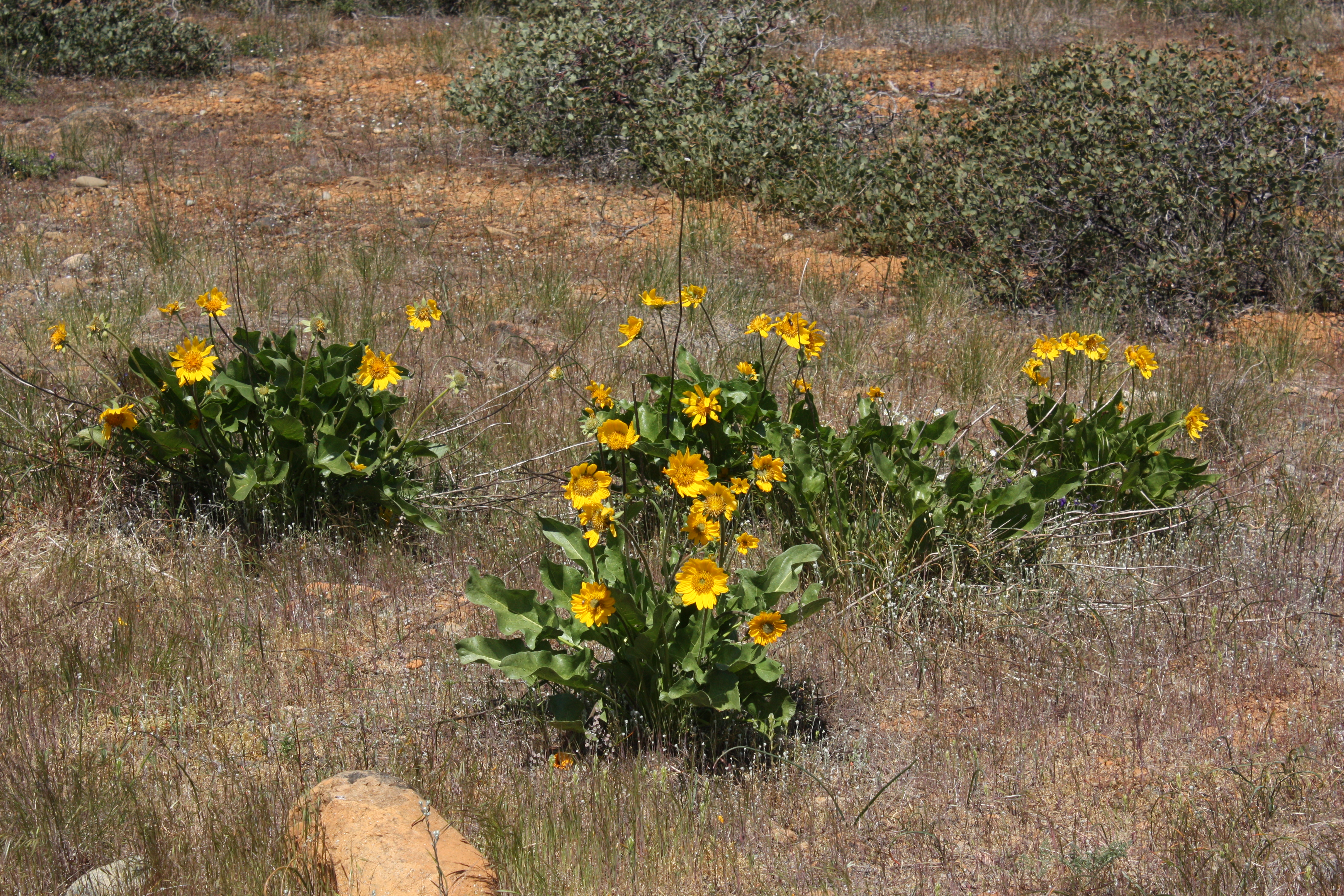 Puget Balsamroot, Deltoid Balsamroot Viewpoint location: Trail at Rough and Ready Flat Botanical Area Viewpoint elevation: 429 meter (1406 ft) Location source: Garmin GPSmap 60CSx Location Datum: WGS84